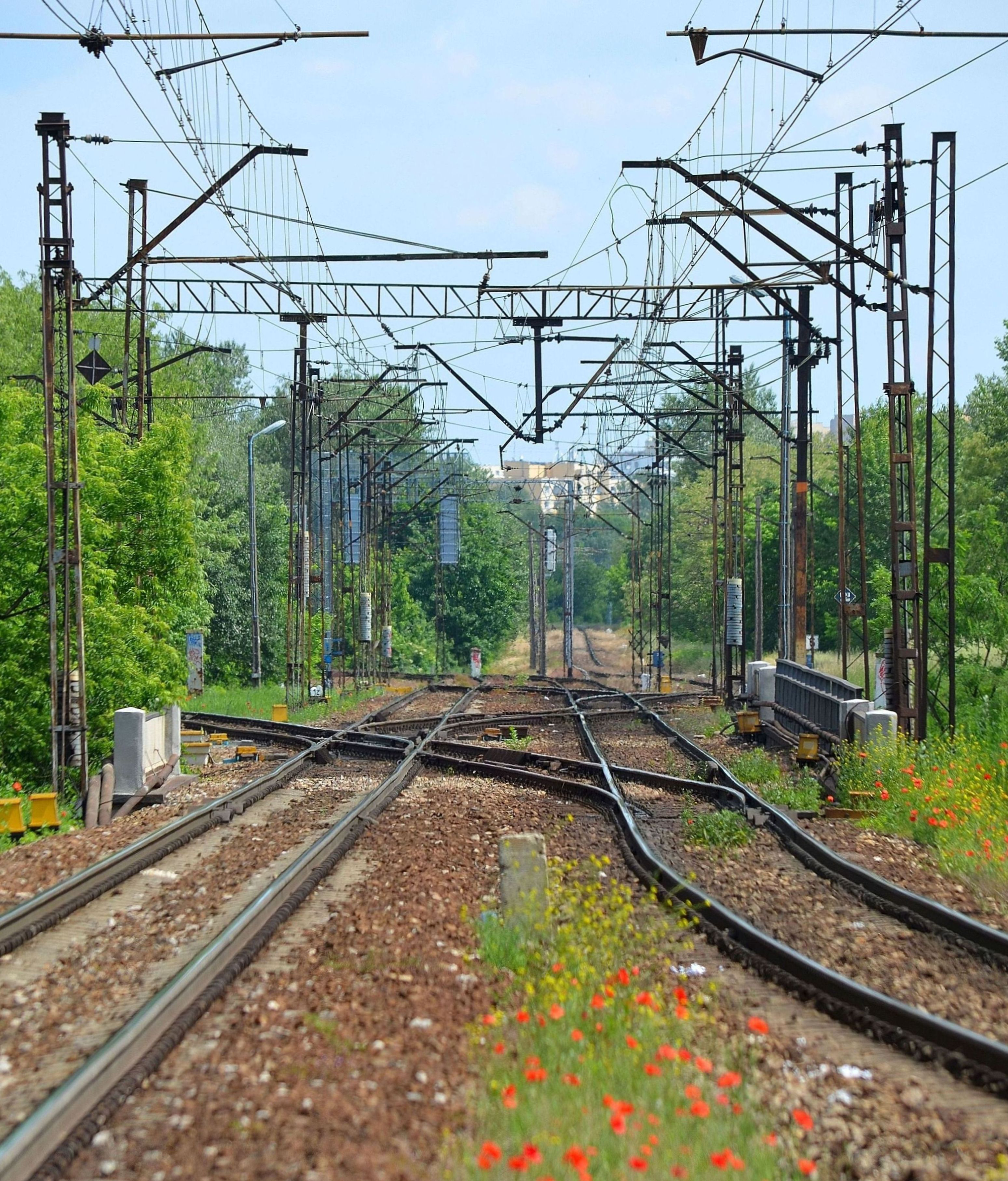 Warsaw railway circle line near Warszawa Zoo station (view to the east)